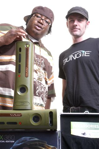 E-40 with Xbox 360.